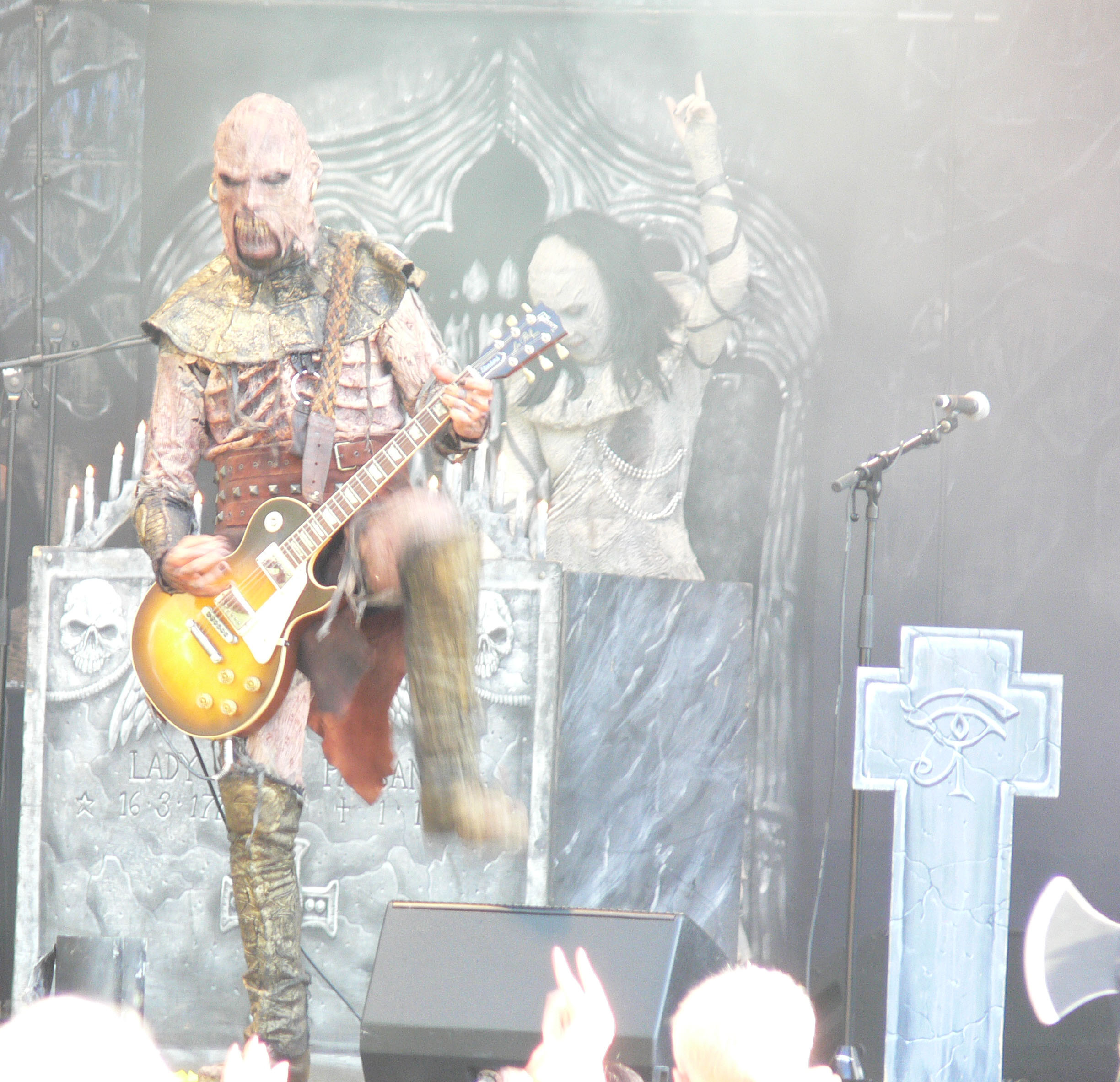 Amen, the guitarist for hard rock band Lordi, on stage. The band have changed there costume a few times. This is the current one